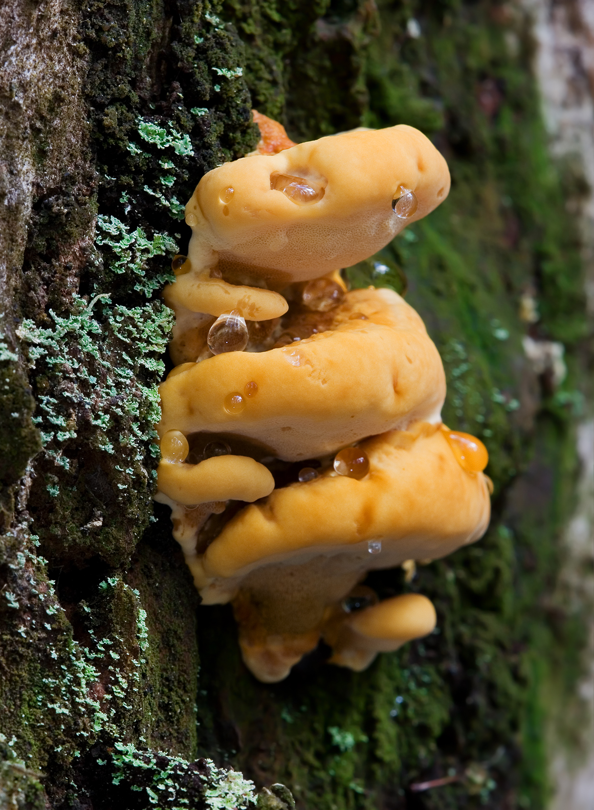 Rigidoporus laetus, Wielangta Forest, Tasmania. Approximate height 60mm.